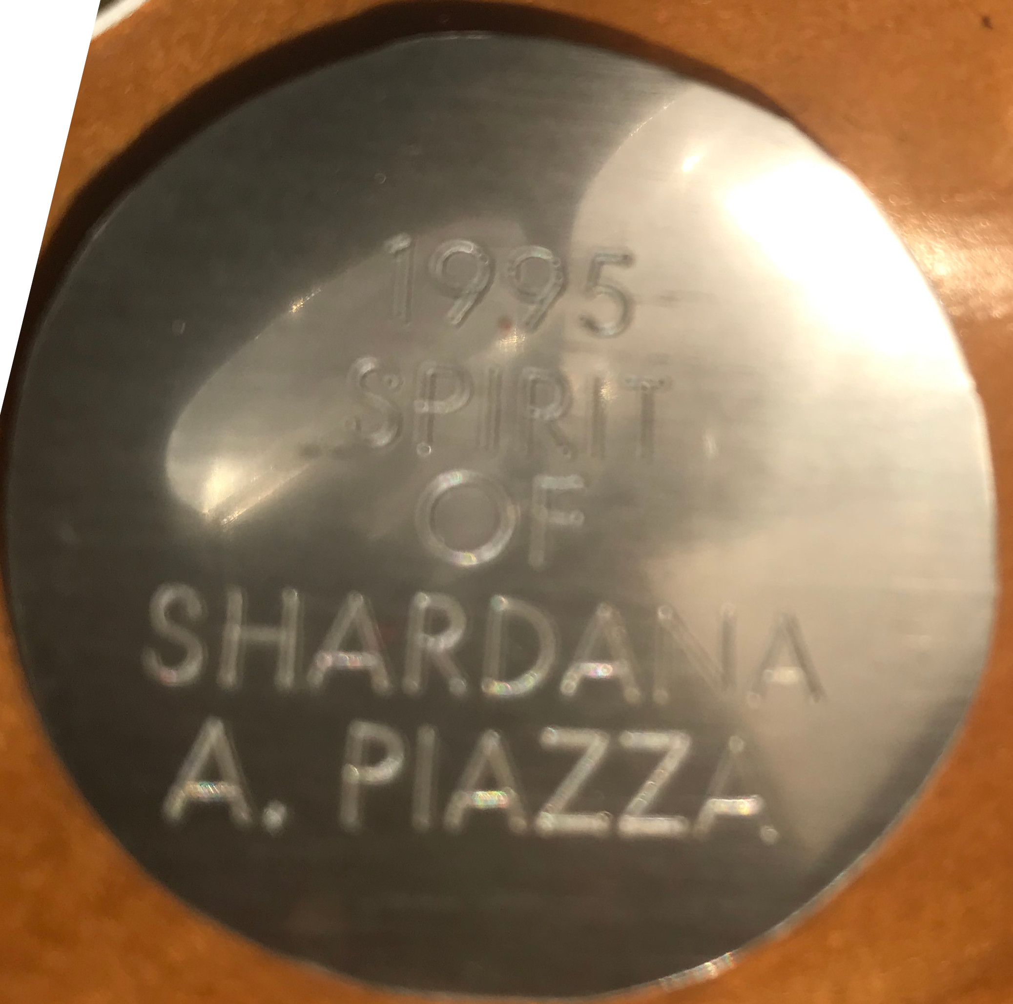 Patch on the Trophy